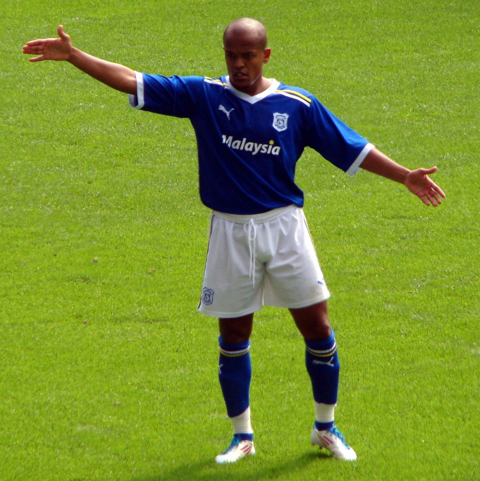 Welsh football player Robert Earnshaw. Cardiff V Parma, Pre-season Friendly, Cardiff City Stadium, Cardiff, Wales